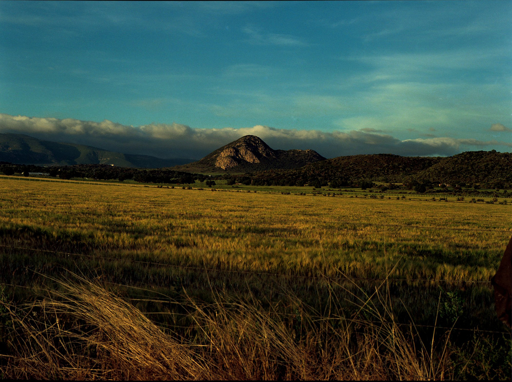 Reform, neighboring the city of Pachuca, has one of the highest population growth rates in the country and an urban area that continually requires new expansion areas.